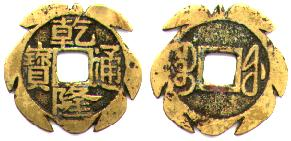 Section 1.95: "Charms with coin inscriptions: Ch'ien Lung T'ung Pao" Ch'ien Lung T'ung Pao Dynasty: Ch'ing (1644-1911 a.d.) Emperor: Kao Tsung (1736-1795 a.d.) Years title: Ch'ien Lung (1736-1795 a.d.) 27 mm Obv. Ch'ien Lung T'ung Pao Rev. Right: Manchu Fu - Fukien province Left: Manchu Boo - coin Meaning: Ref.: This charm is a normal coin that has been modified at a later date. John Ferguson's website has a page of coins that have been transformed to charms. Some are very beautiful.